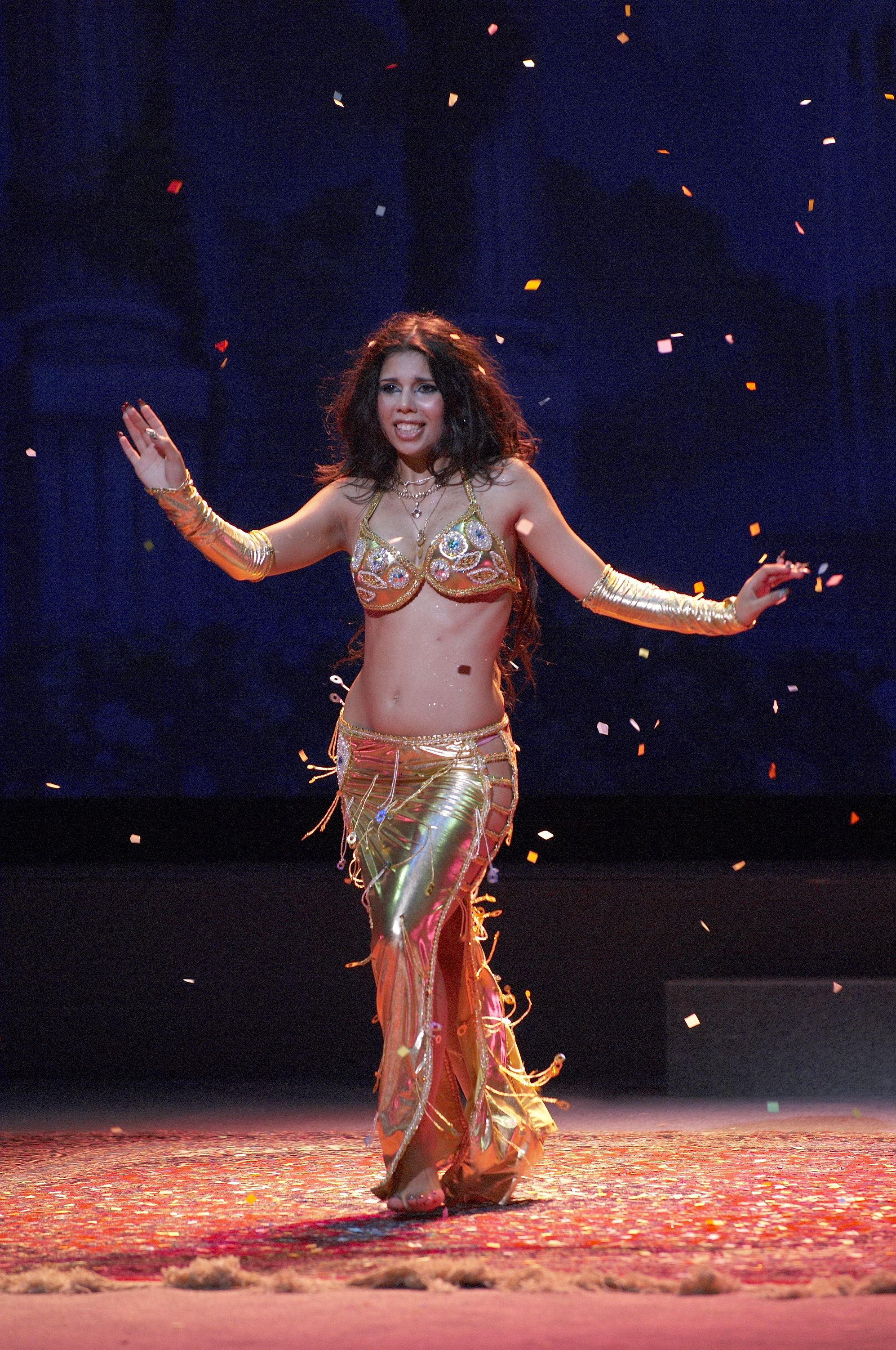 Bellydancer Mina Saleh in 2009